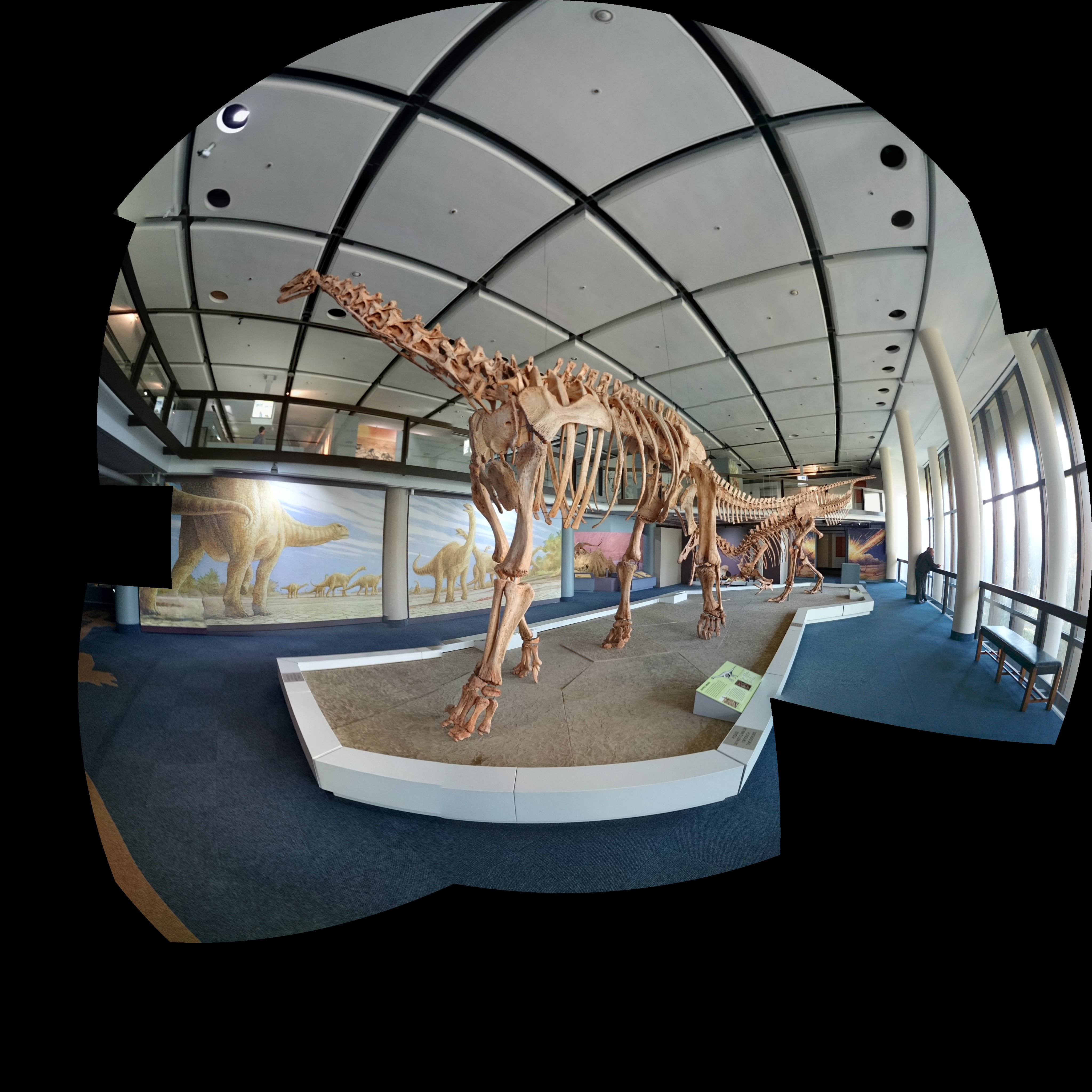 Mounted replica of the fossilized skeleton of a juvenile Jobaria, a long-necked sauropod dinosaur that lived in Africa during the Early Cretaceous Period about 135 million years ago. As a juvenile, this individual was only 12.5.m long and stood just 5.5m at the hip whereas the adult jobaria was enormous, nearly 21.5 meters long, 14.5 meters high and estimated to have weighed over 18 metric tons (18,000 kg)!